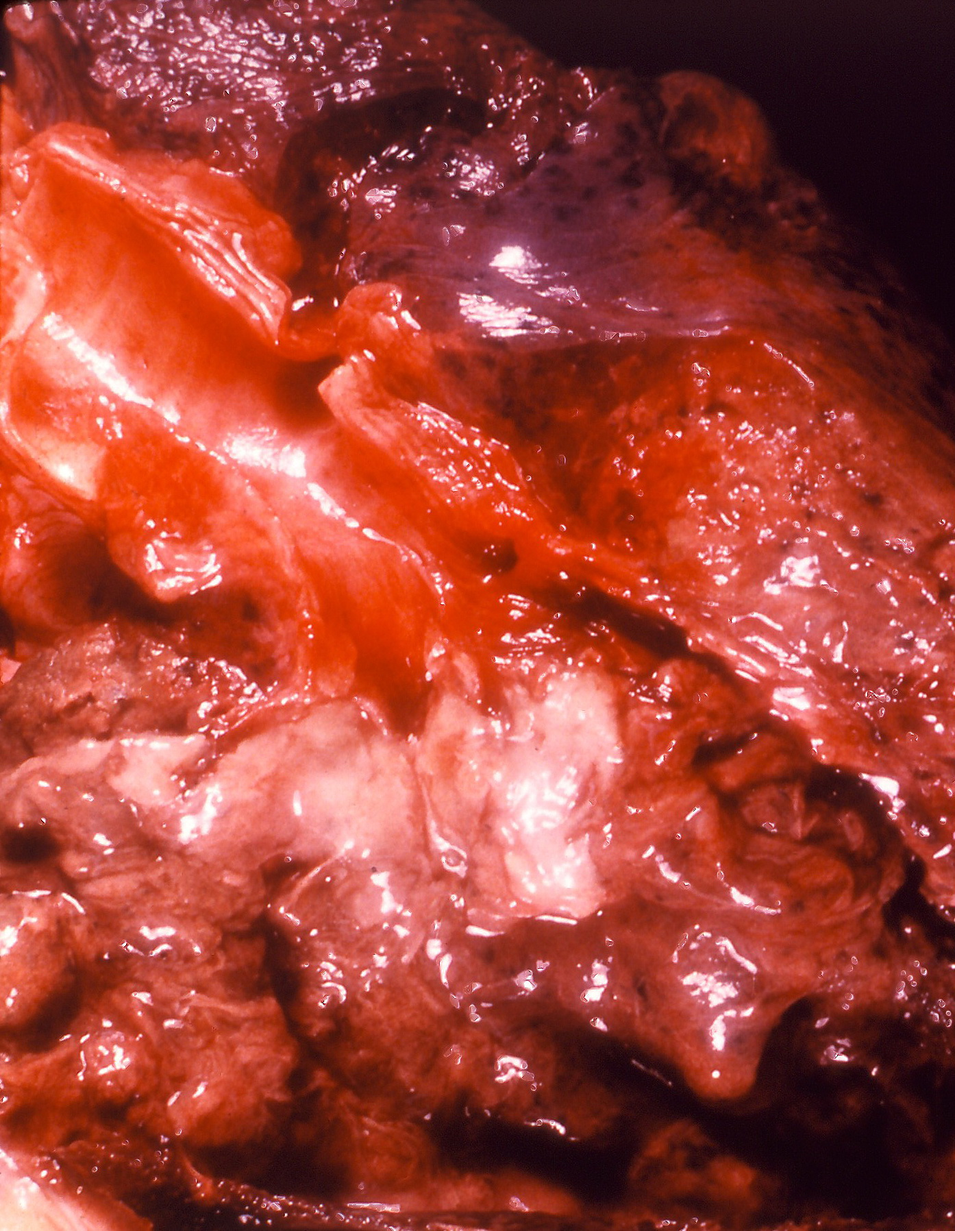 An amebic abscess in the right lobe of the liver ruptured through the diaphragm and into the right lower lobe of the lung.